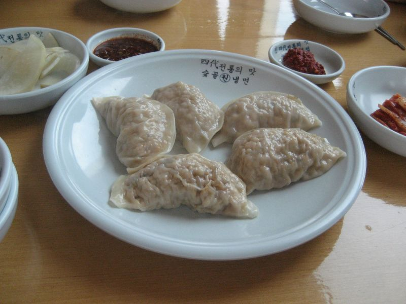 Pyeongyang style kimch mandu in Korean barbeque